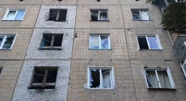 Damaged apartment building at 4 Volkova Street, Gorlivka, Donbass, August 7, 2014.